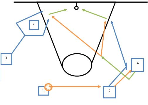 Pick'n'roll 4x1; pick and roll; screen-roll; basketball